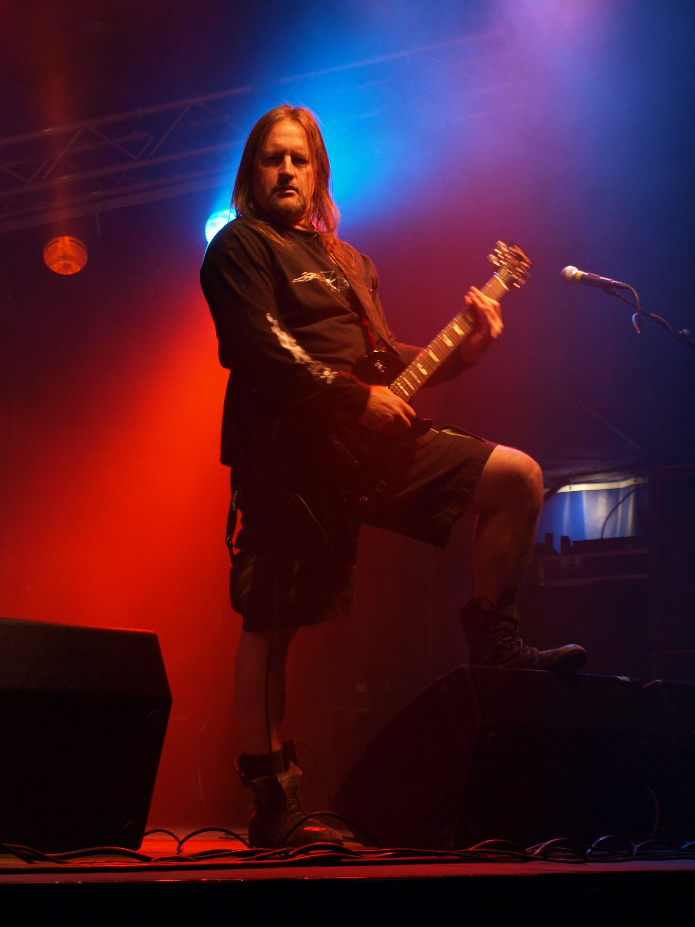 American thrash metal band Overkill live at Jalometalli 2008 in Oulu.